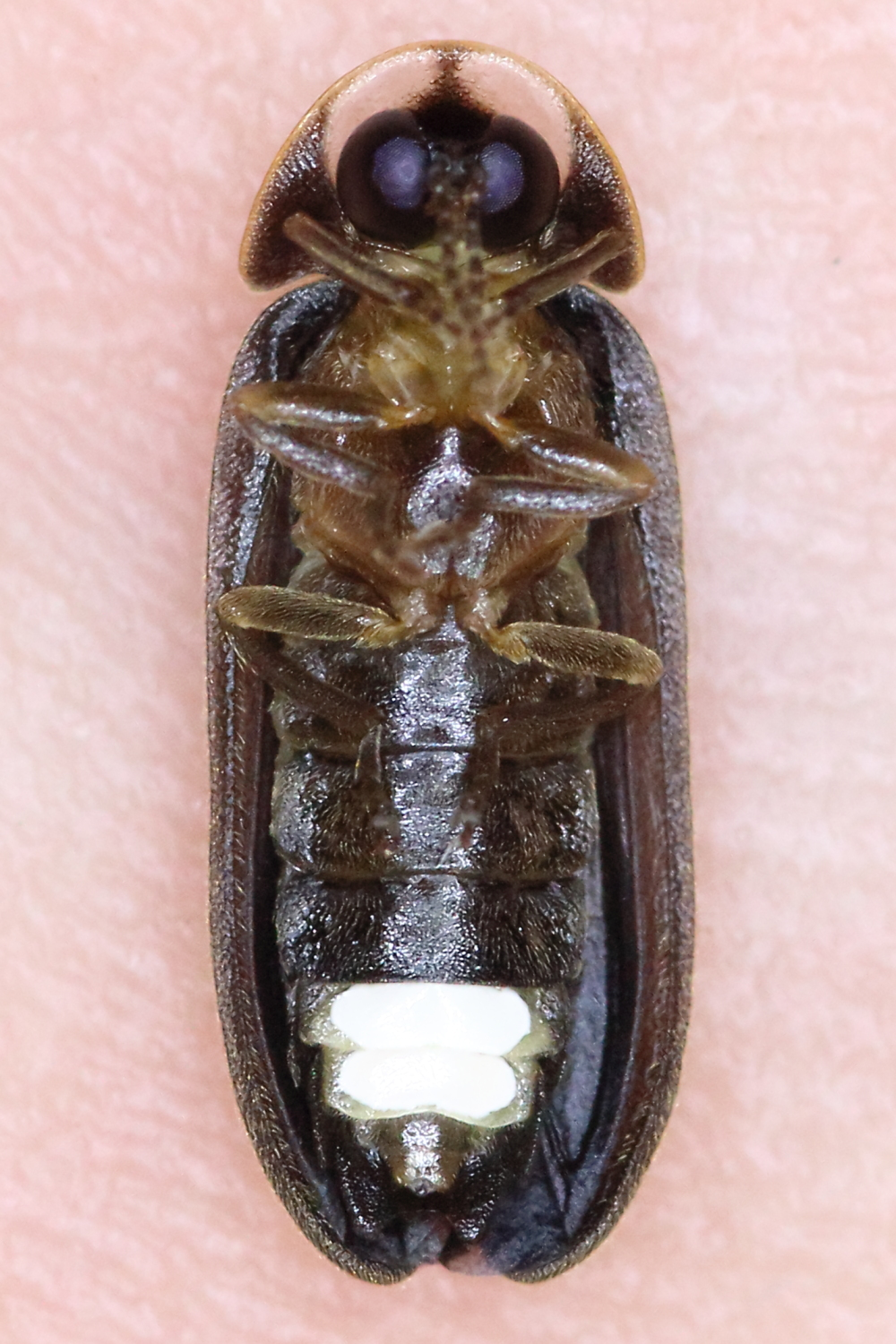 the bottom view of a Lamprohiza splendidula male